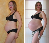 Pregnancy comparison. 26 weeks and 40 weeks. 2005